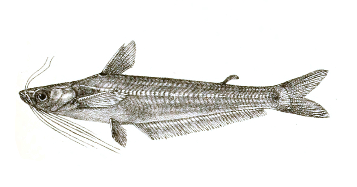 Neotropius atherinoides (fishbase), Pachypterus atherinoides (Catalog of Fishes). The original plates showed the fishes facing right and have been flipped here. Pseudotropius atherinoides